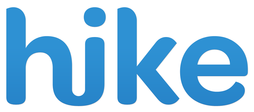 hike messenger logo